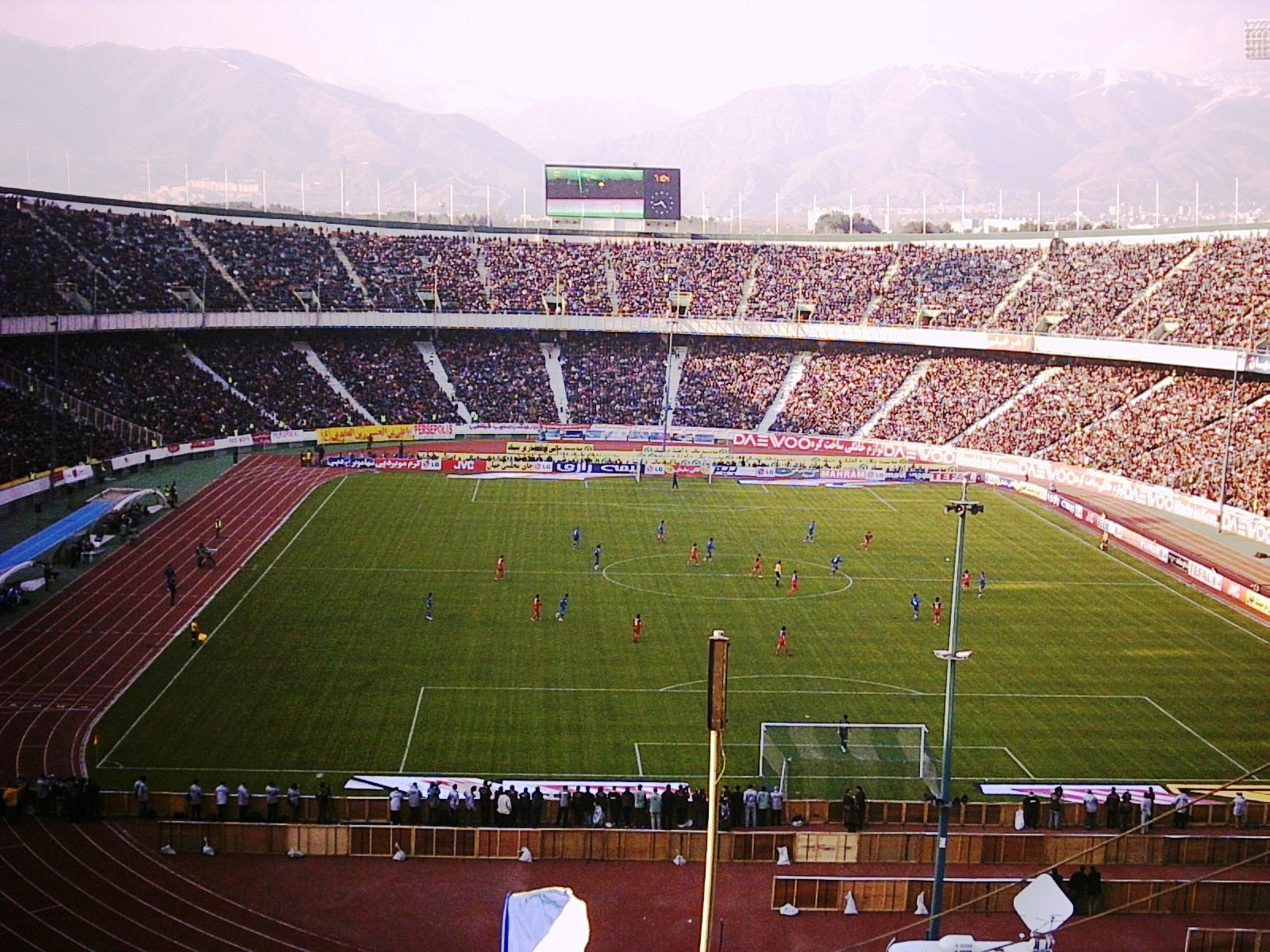 Tehran Azadi Stadium